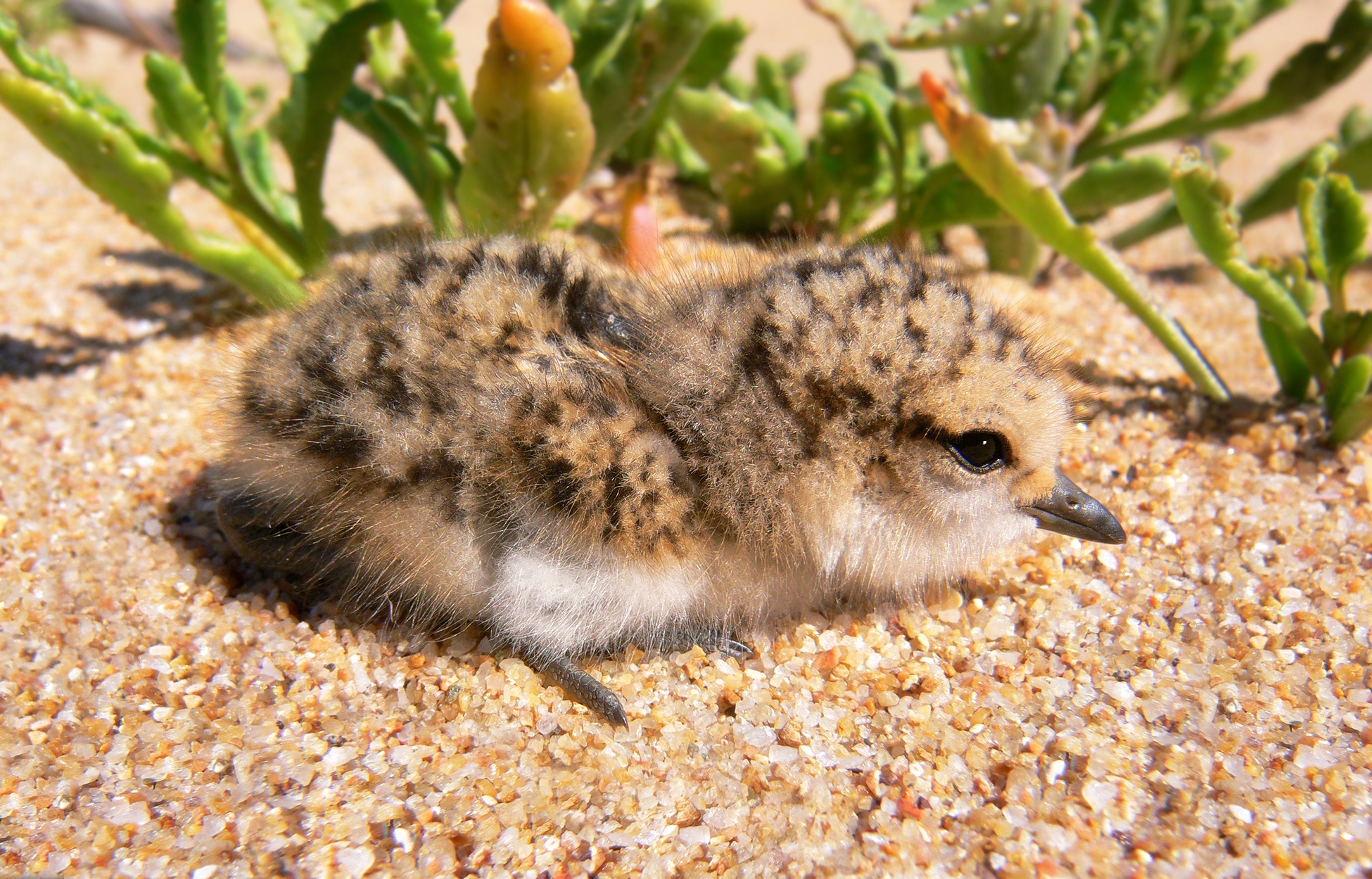 A red-capped plover chick (Charadrius ruficapillus) adopting a camouflaged position that helps it avoid detection by predators such as gulls and crows.